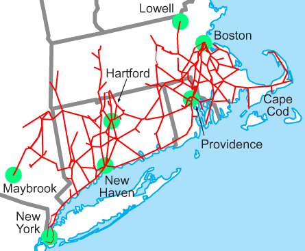 Stylized map of the New York, New Haven and Hartford Railroad